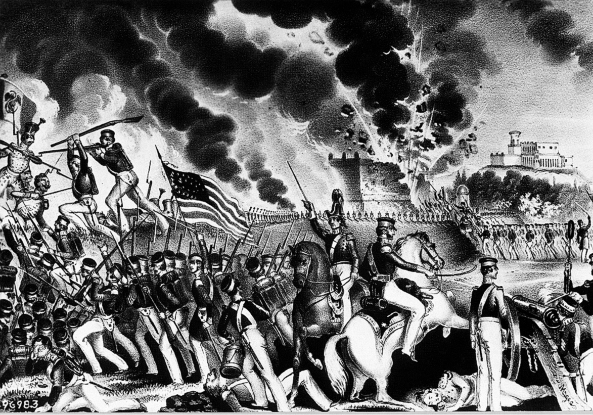 1848 lithograph of Battle of Molino del Rey. Title: "Battle of Molino del Rey, Fought September 8th 1847. Blowing up the Foundry by the Victorious American Army under General Worth."